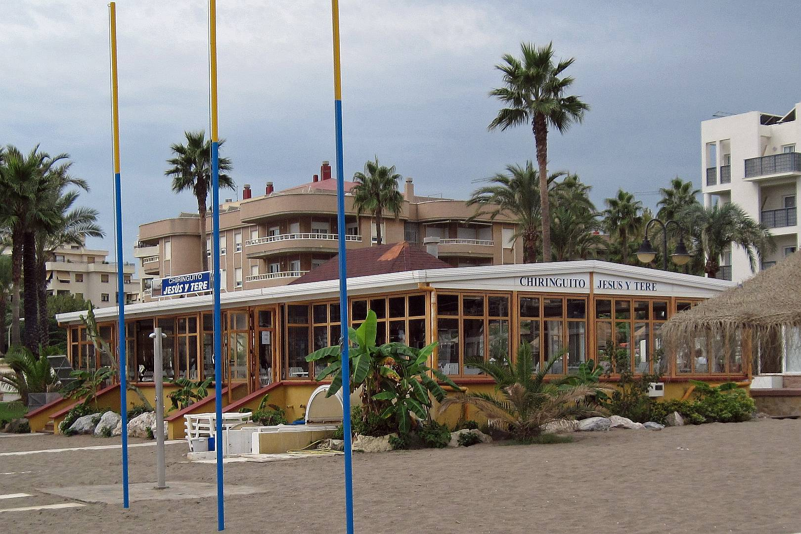 Chiringuito am Strand von Torremolinos, Spanien